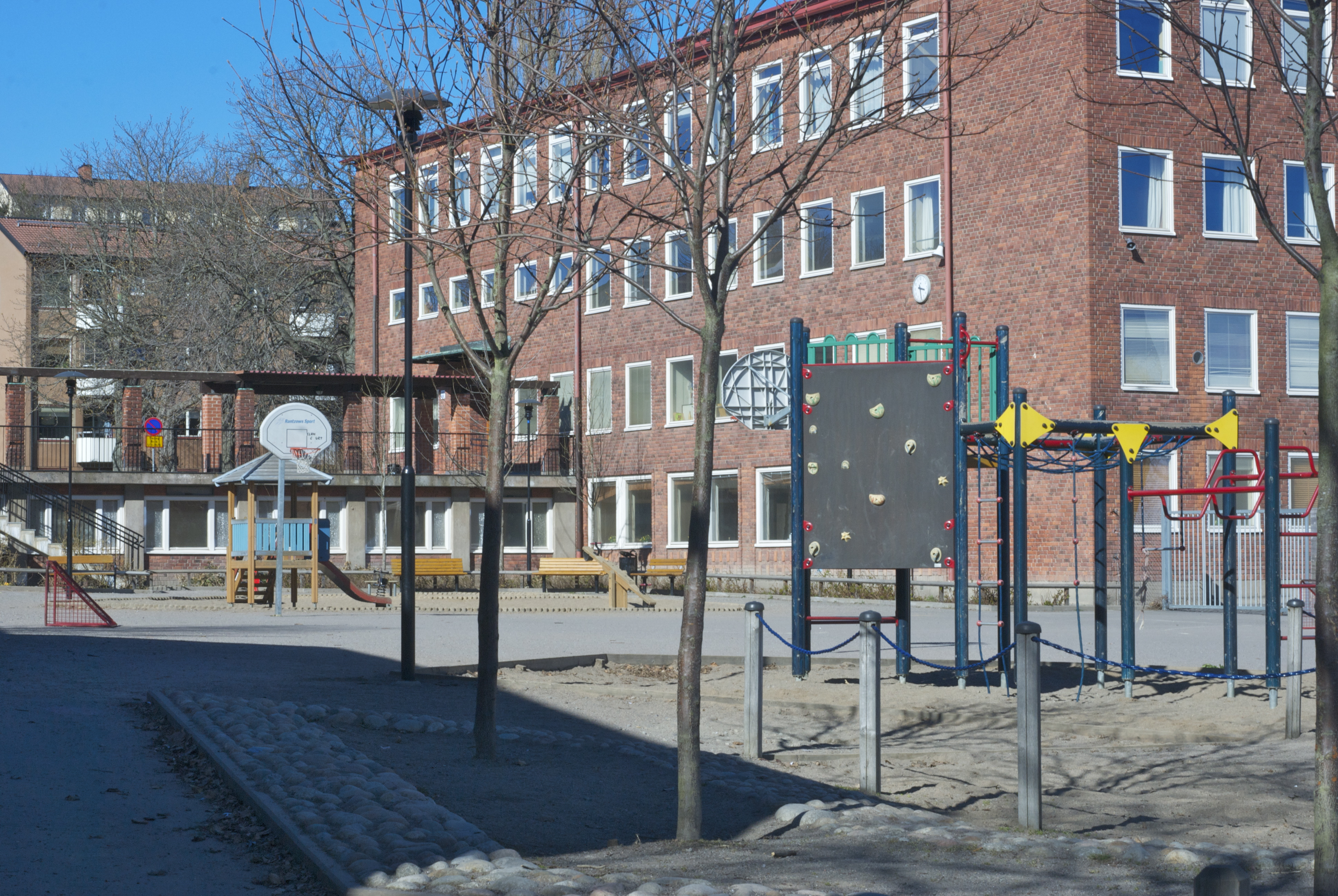 Nytorpskolan (Nytorp school). Built in the 1950s. Architect David Dahl.